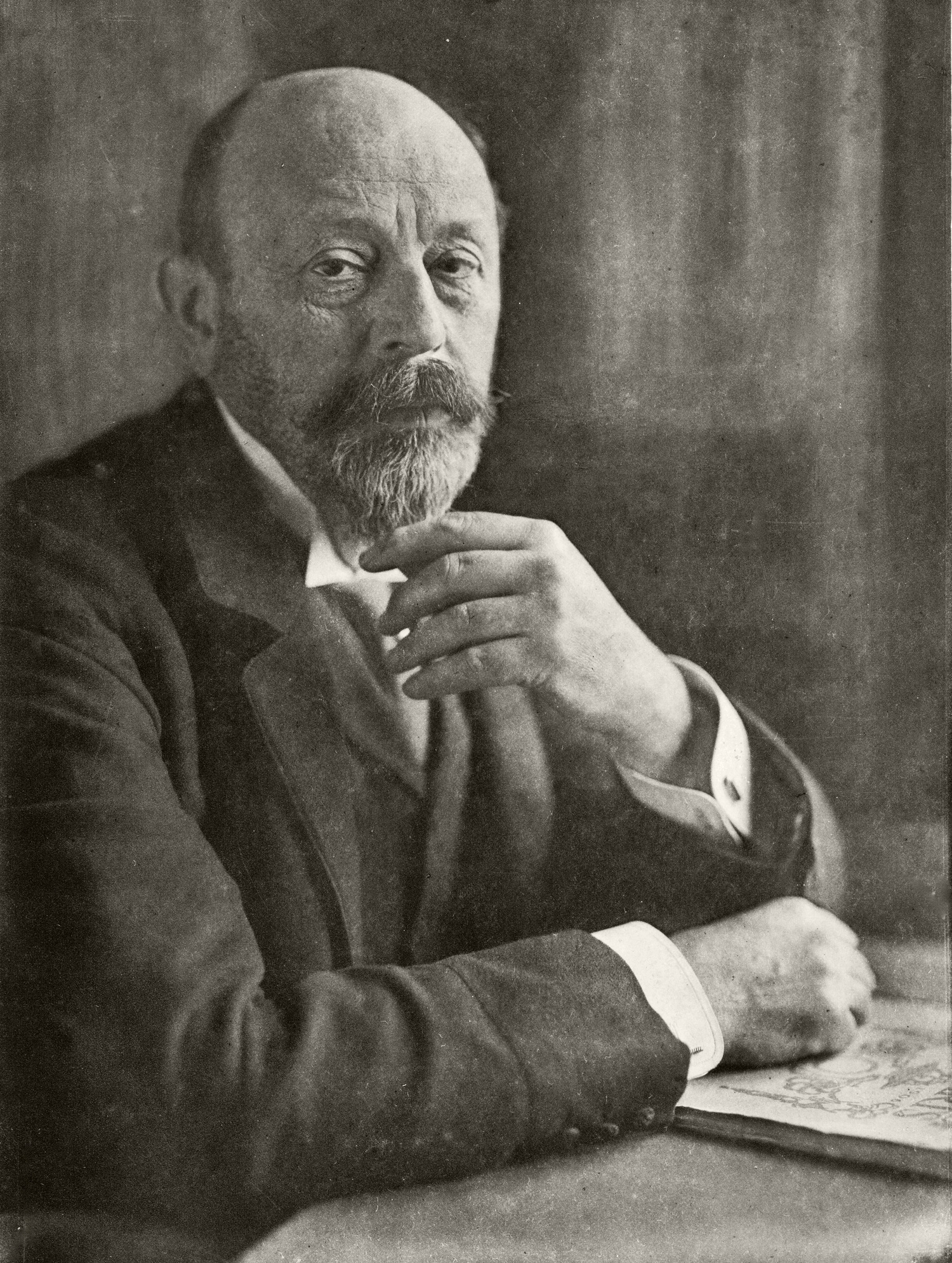 Picture and autograph of Leopold Landau